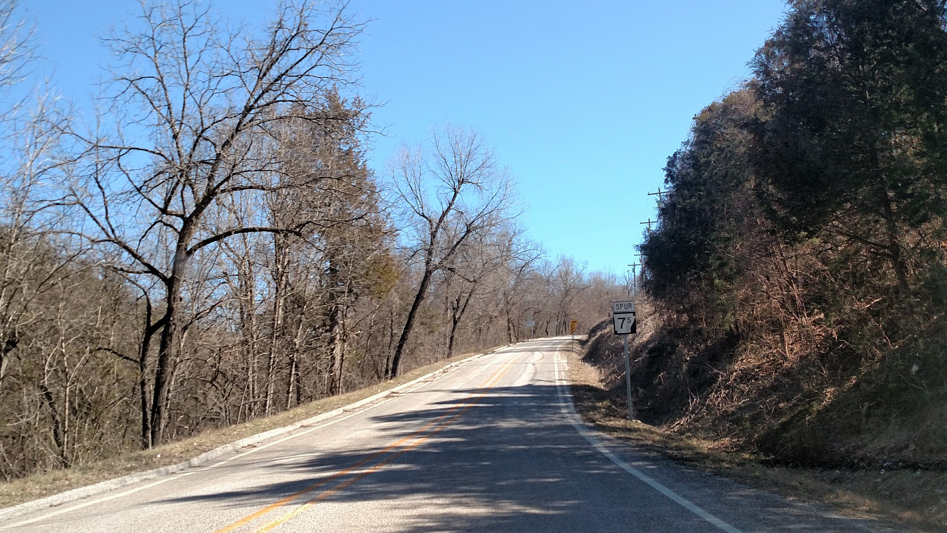 First reassurance marker along Highway 7S in Marble Falls, Arkansas